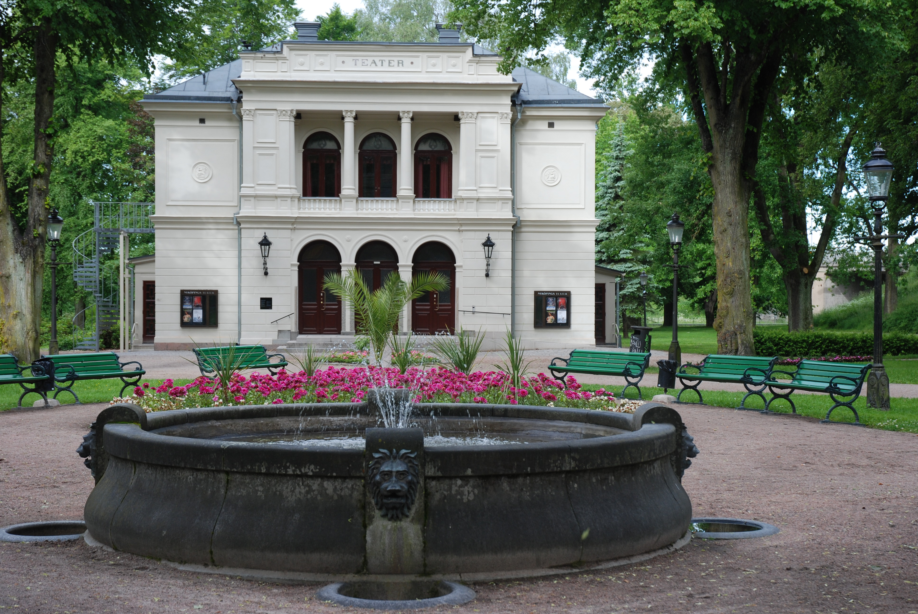 Nyköpings teater